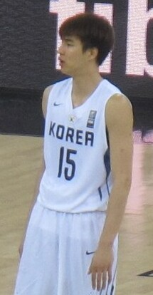 2014 FIBA Basketball World Cup Korea vs Mexico